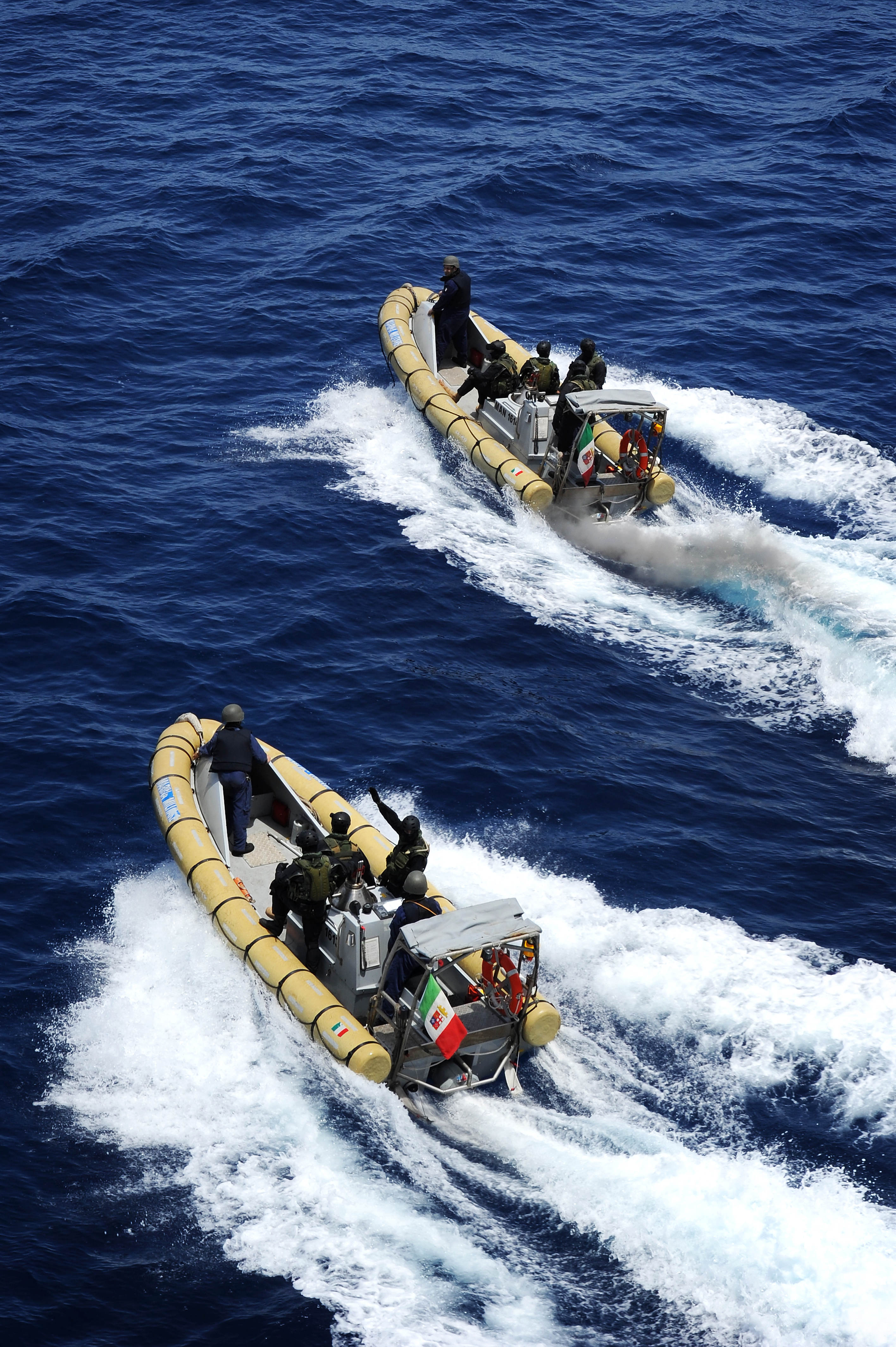 MEDITERRANEAN SEA (May 28, 2010) An Italian navy visit, board, search and seizure team returns to the Italian navy offshore patrol vessel ITS Comandante Foscari (P-493) after completing inspections aboard the Military Sealift Command container and roll-on/roll-off ship USNS LCPL Roy M. Wheat (T-AK 3016) during the at sea portion of exercise Phoenix Express 2010. Phoenix Express is a two-week exercise designed to strengthen maritime partnership and enhance stability in the region through increased interoperability and cooperation among partners from Africa, Europe and the U.S. (U.S. Navy photo by Mass Communication Specialist 2nd Class Jimmy C. Pan/Released)